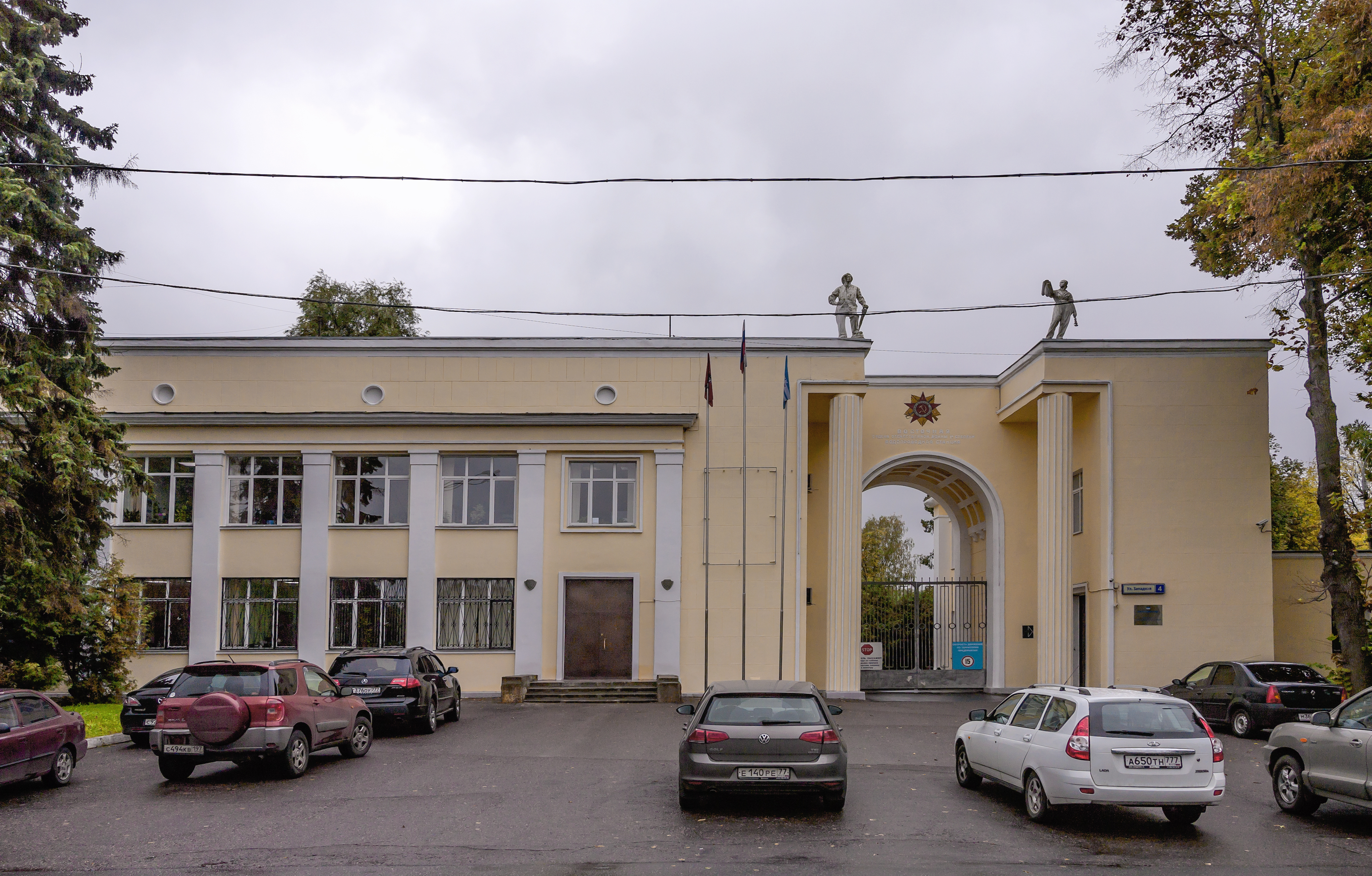 Administrative building with the entrance station: East, Eastern District, Moscow